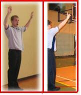 basketball, rzuty wolne